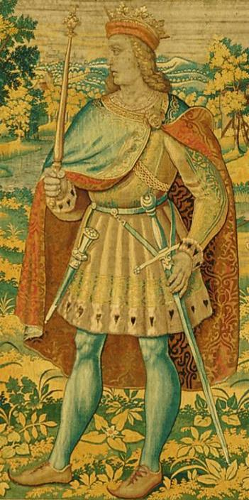 King Olaf II of Denmark, Olaf IV of Norway